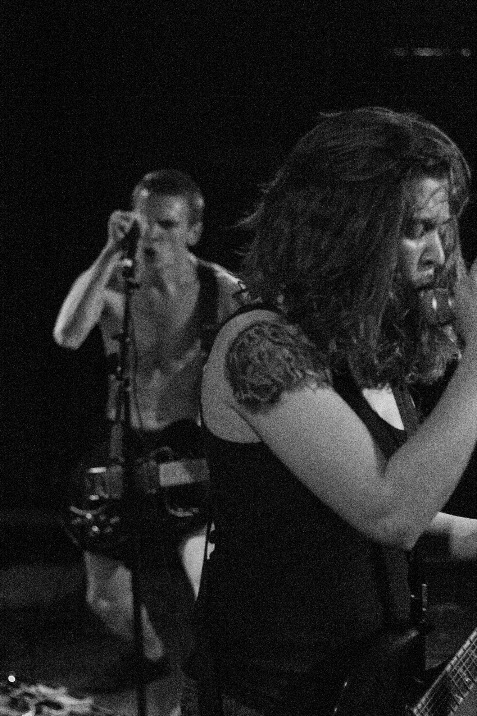 A photograph of Code Orange Kids live in February 2013.